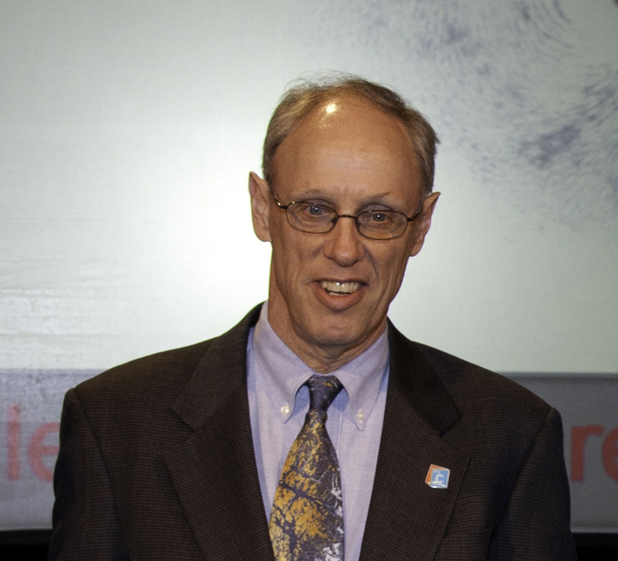 Thomas R. Tritton, head of the Chemical Heritage Foundation, at the Pittsburgh Conference on Analytical Chemistry and Applied Spectroscopy (Pittcon), May 13, 2011 in Atlanta, GA.